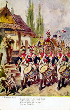 Post card from Juliusz Kossak's Pieśń Legionów ("Legions' Song") series, illustration of the fifth stanza